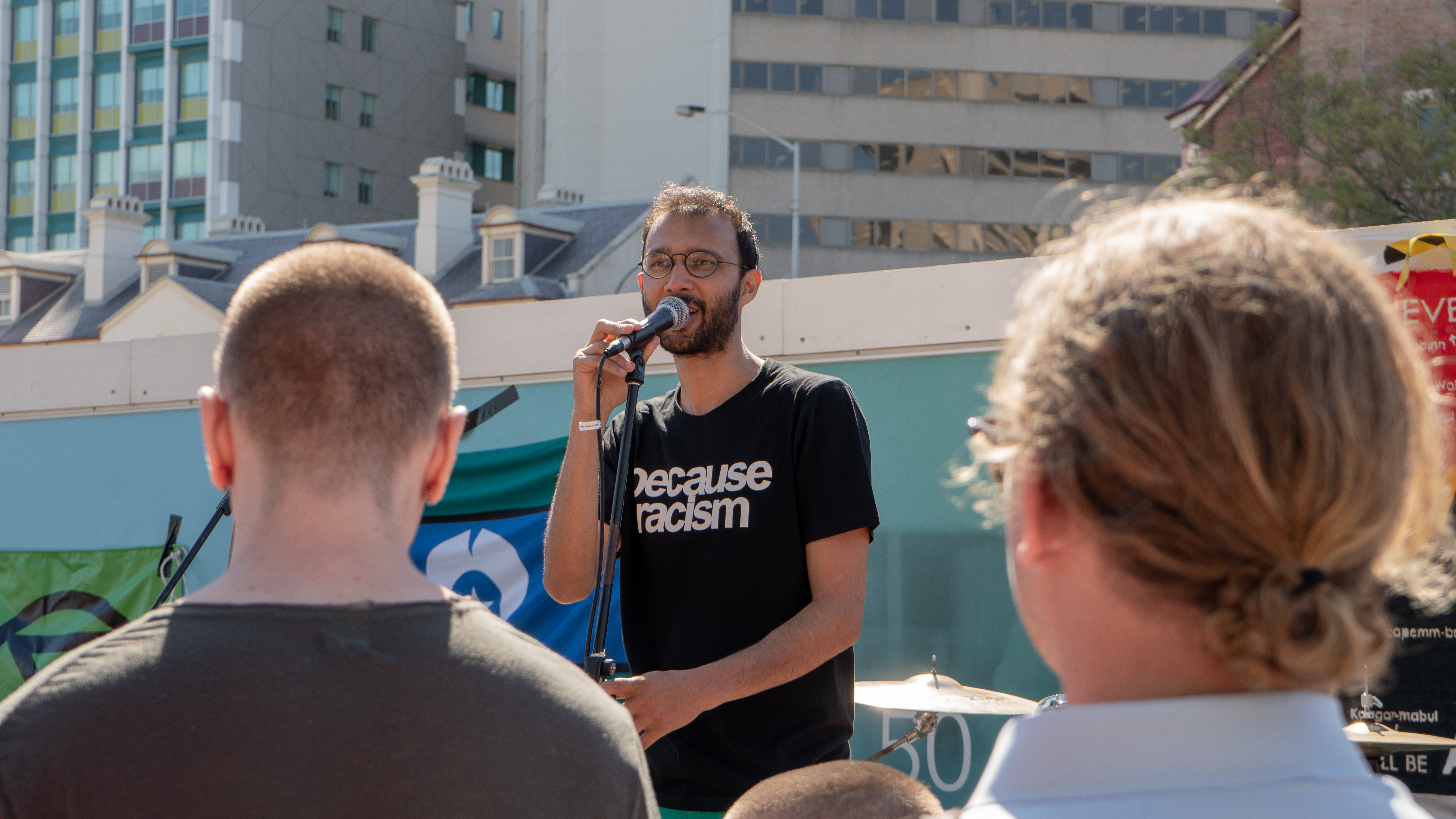 Councillor Jonathan Sri addresses the crowd at the Rebellion Day rally in Brisbane